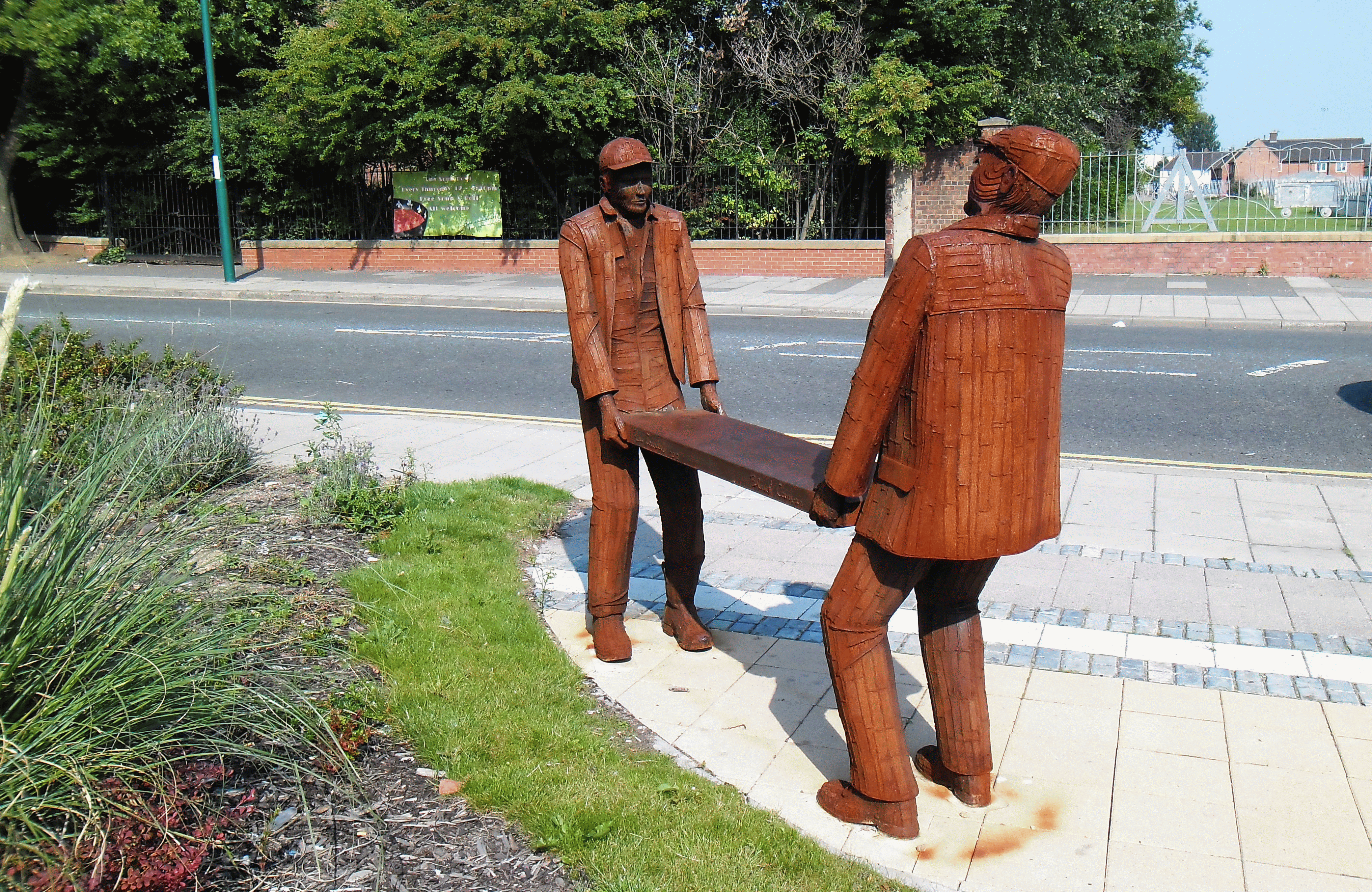 Bad Back by Ray Lonsdale, South Bank, Middlesbrough, United Kingdom